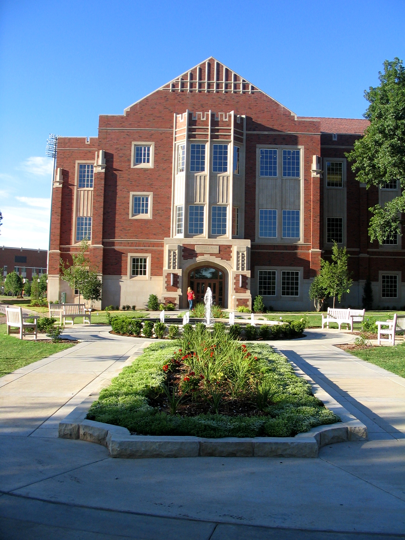 View looking south towards the new Price Hall in Norman, OK.